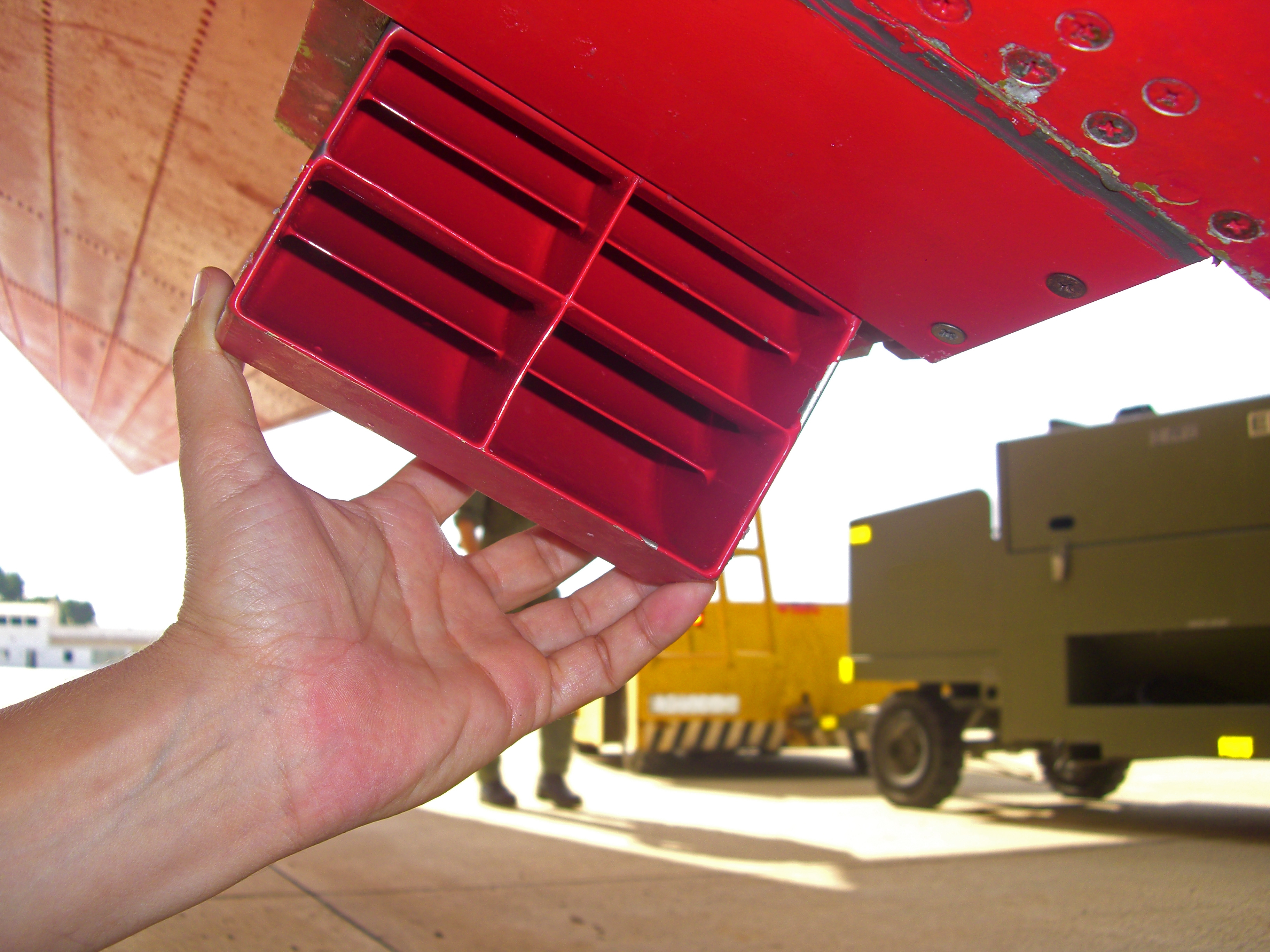 Water scoop of a Bombardier 415 water bomber